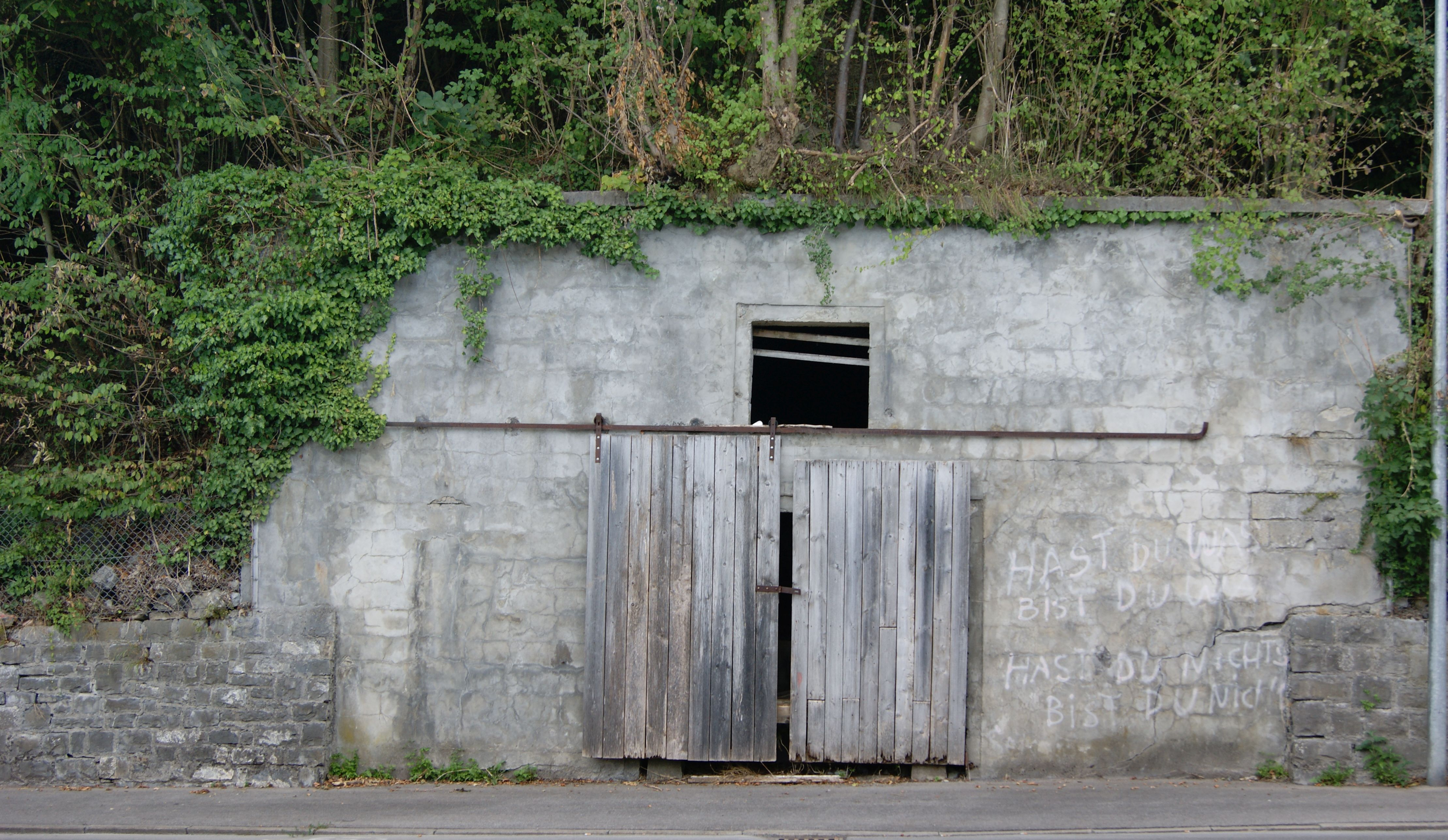 Mähdergasse in Kehlen in Dornbirn, Vorarlberg, Austria, Beer cellar (former ice cellar)